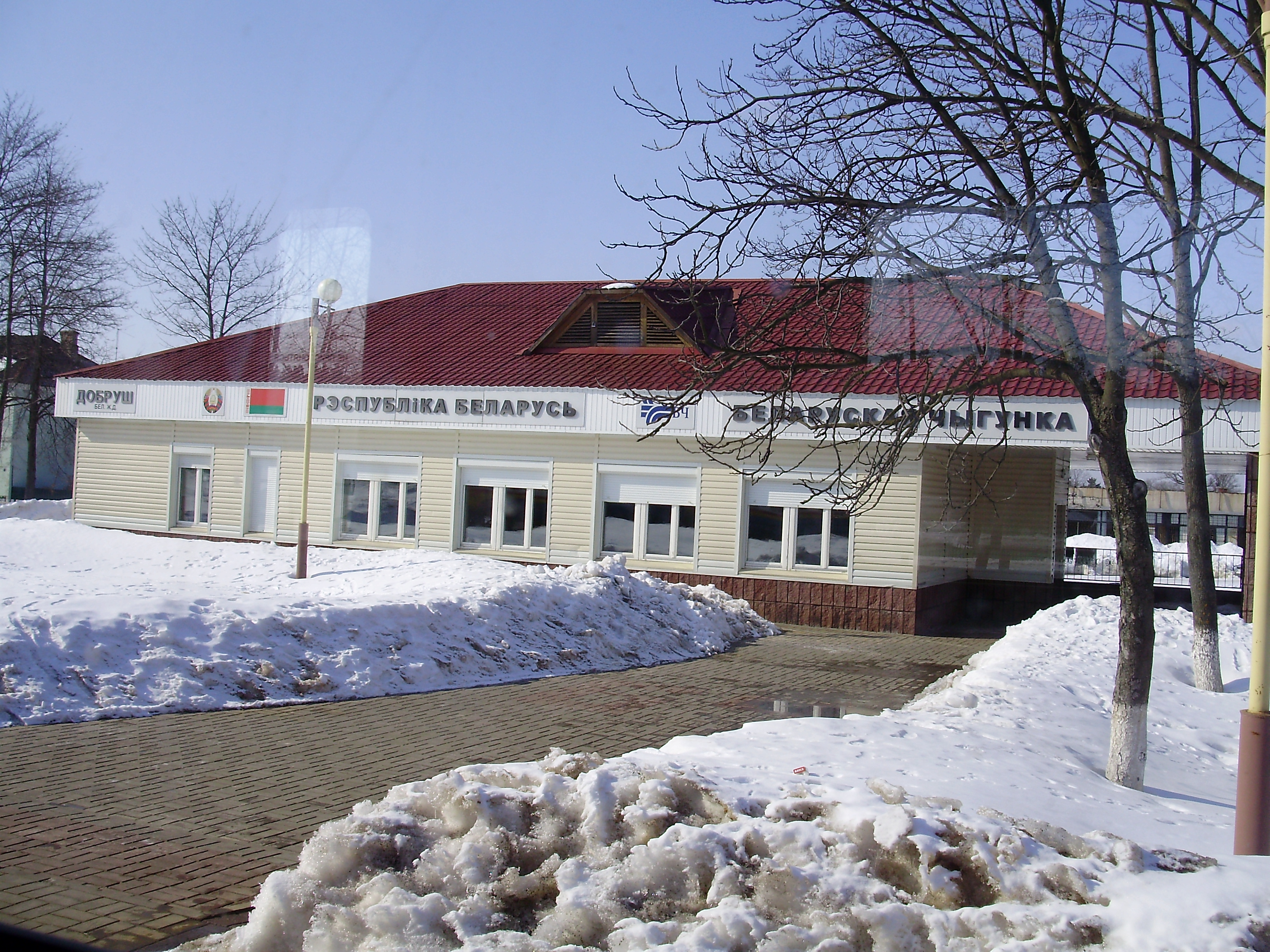 Dobrush Railway Station